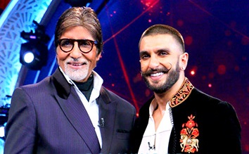 Amitabh Bachchan, Ranveer Singh, Parineeti Chopra on sets of Aaj Ki Raat Hai Zindagi